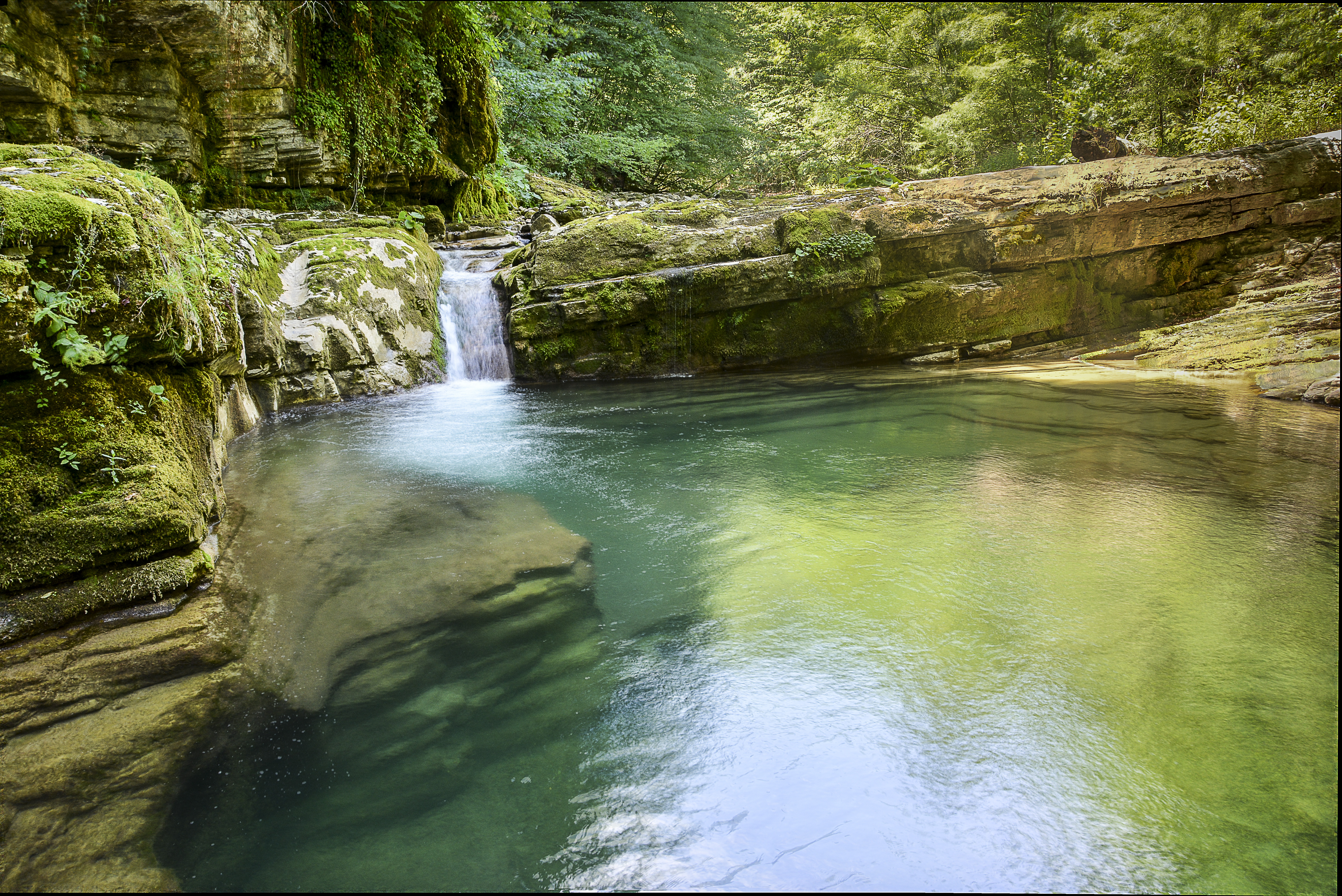 Посебни резерват природе Кањон Цврцке Кнежево, Котор Варош ID добра: PPRP001